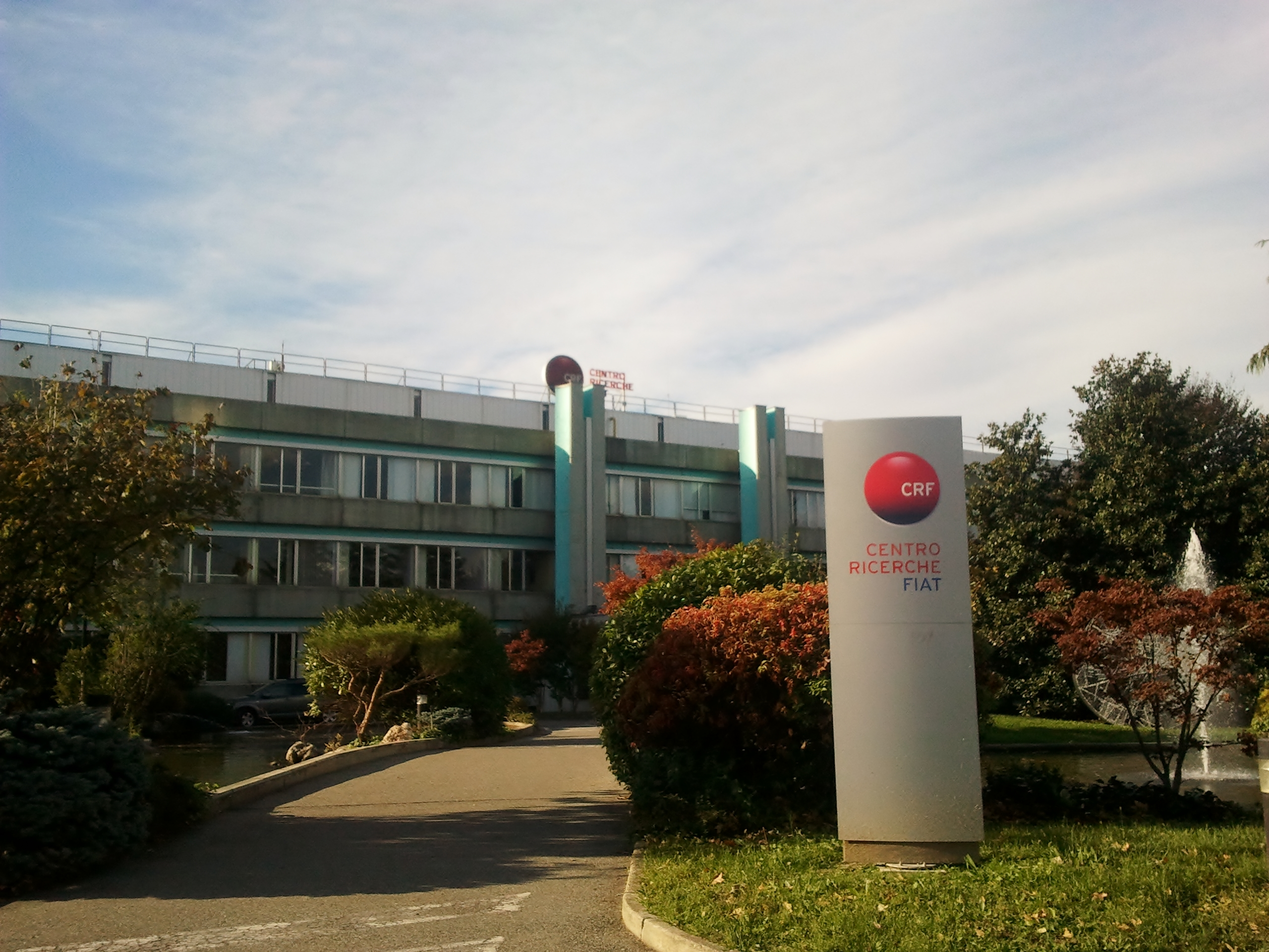 Centro Ricerche Fiat. Orbassano. Torino